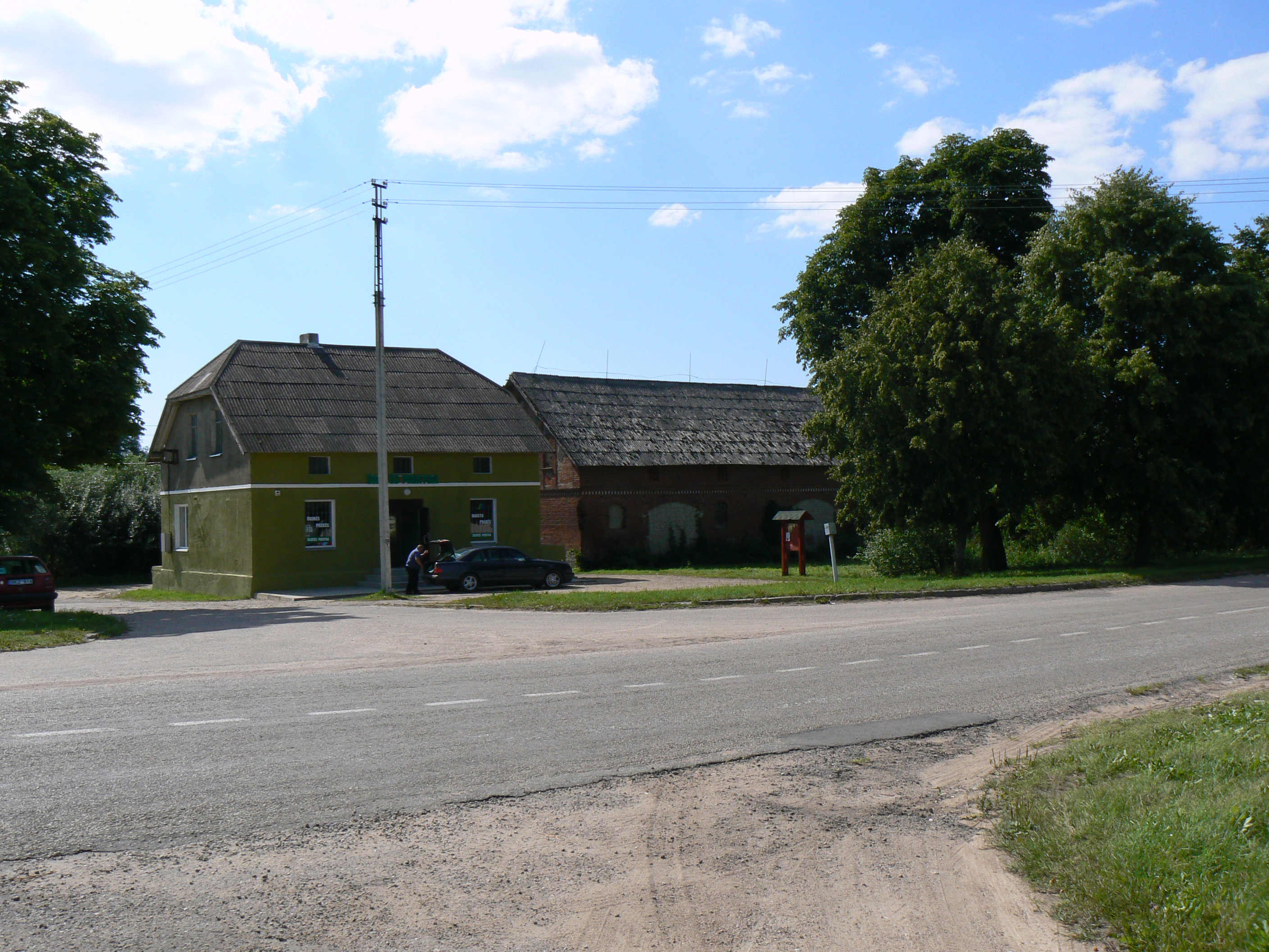 Sakūčiai